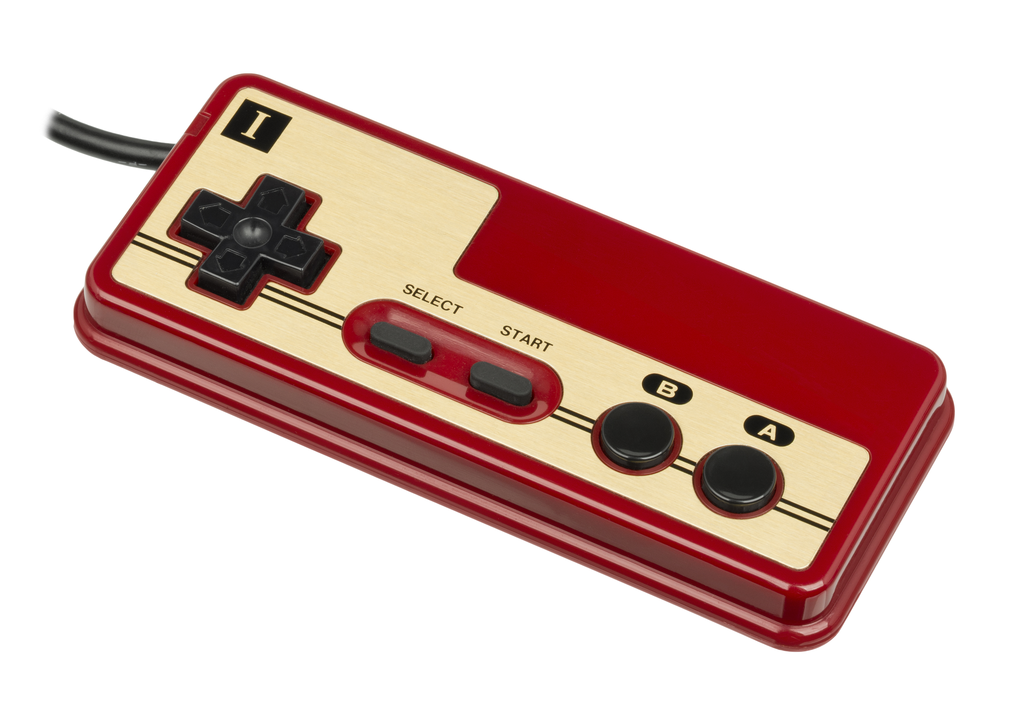 The first player controller for the Nintendo Famicom, a video game console released by Nintendo in Japan in 1983.